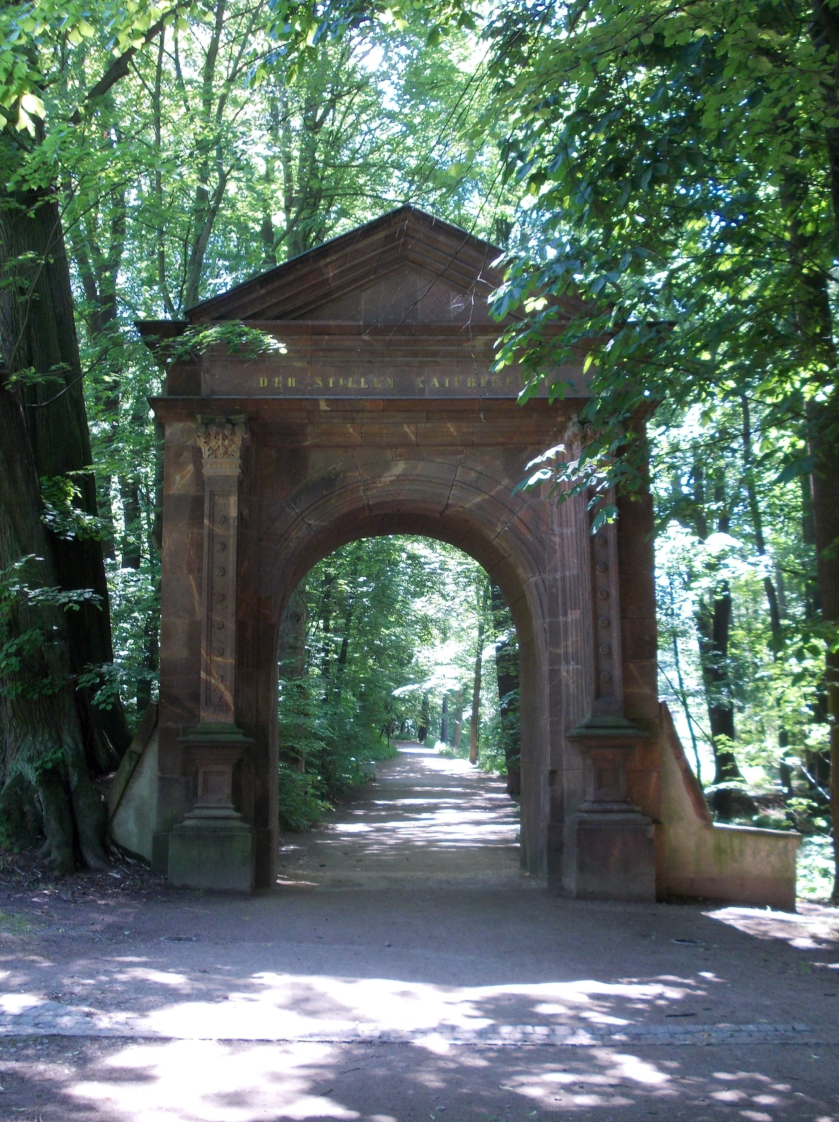 Portal "To the silent enjoyment of nature" in Grünfeld Park (Waldenburg, Zwickau district, Saxony), originally a portal of the old Waldenburg Castle